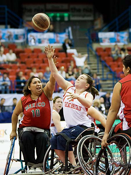 Mexico number 10 Carmen Montano challenges Great Britain's number 7 Helen Freeman for the balll